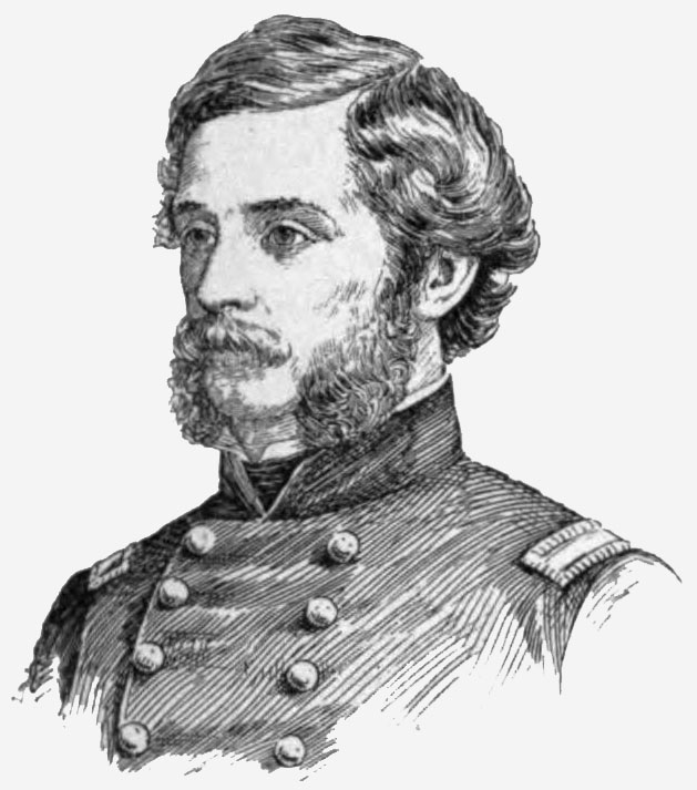 Portrait drawing of novelist Theodore Winthrop.